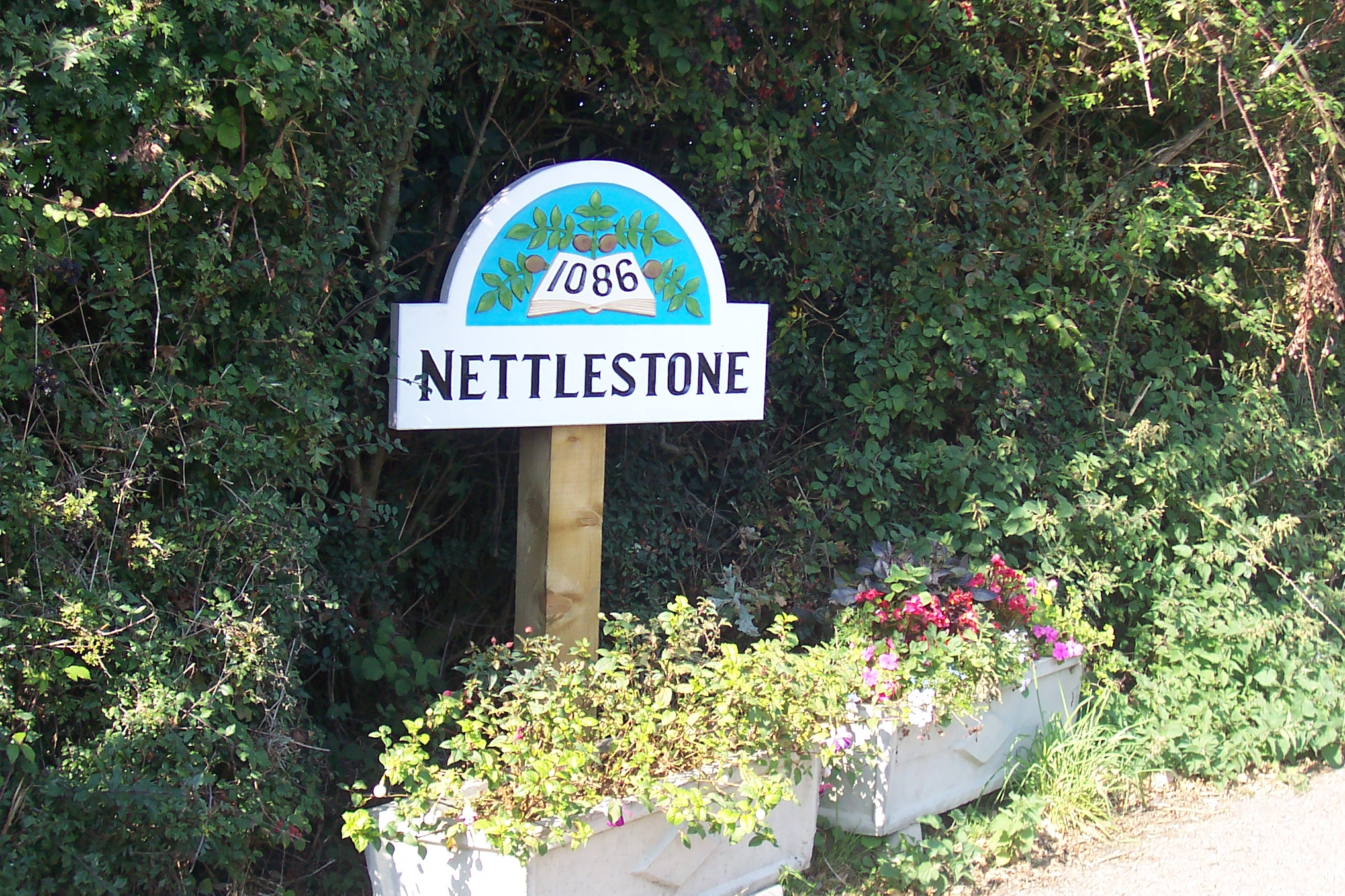 Sign on Eddington Road at southern edge of Nettlestone, Isle of Wight, UK